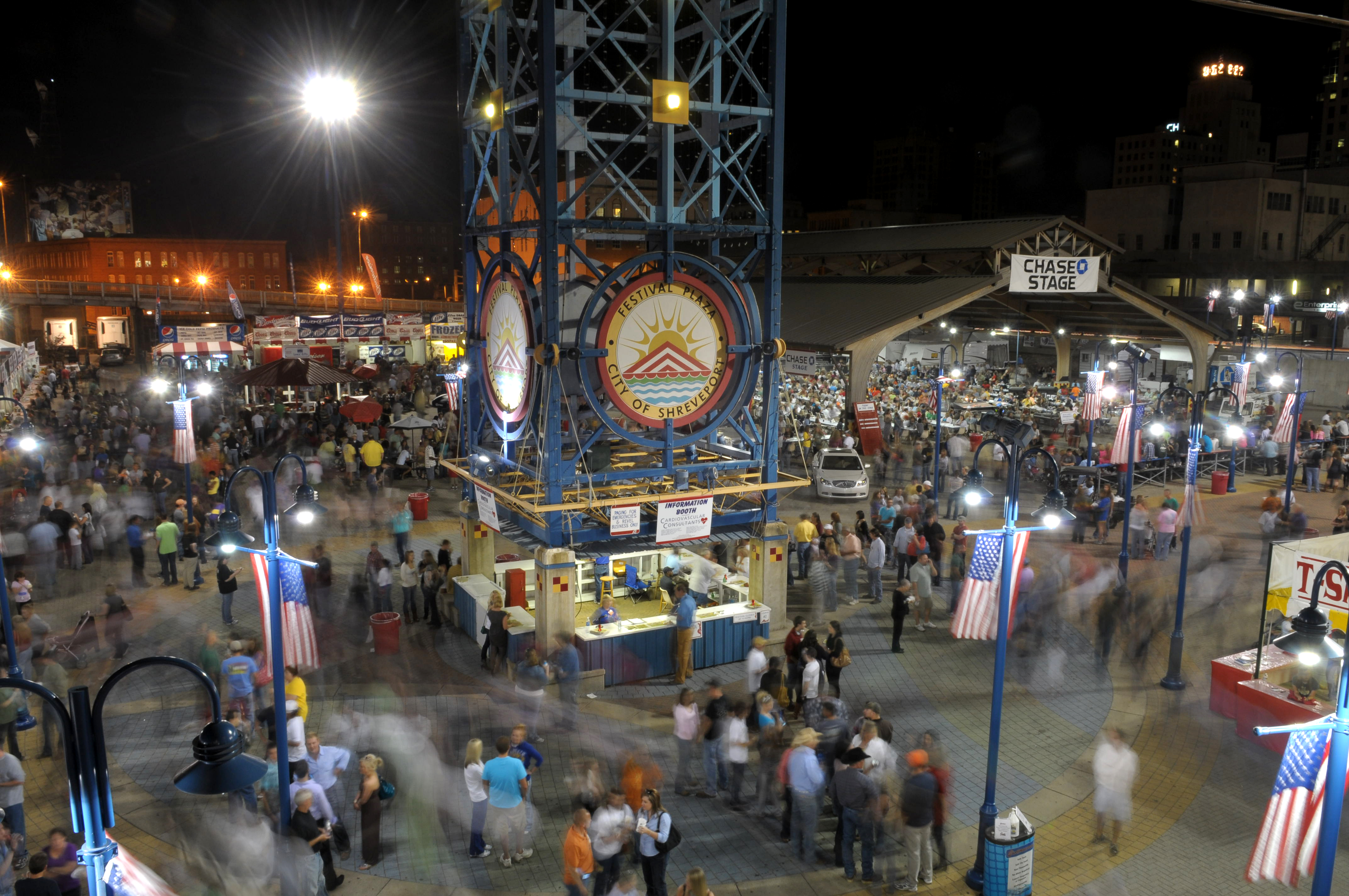 The Red River Revel, the largest outdoor arts festival in North Louisiana, attracts 180,000+ people to the Shreveport riverfront from October 1-8, 2011. The Revel will, once again, populate Festival Plaza with over 140 visual artists from throughout the country displaying their fine art in ceramics, watercolors, oils & acrylics and metals to name a few.